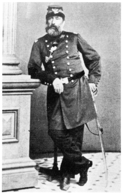 Lieutenant Colonel Germain Franz Metternich, Union Army. Picture taken between 1861 and early summer 1862.